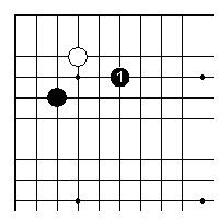 diagram I made